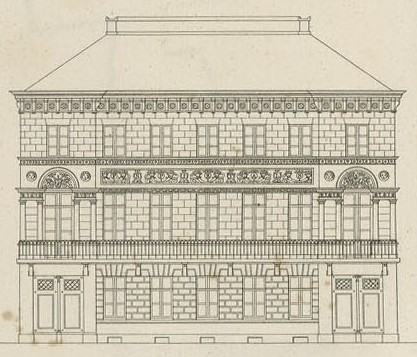 Two houses in Ghent, one in Geraardsbergen